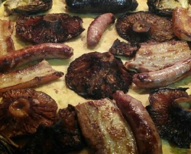 Coca de fira